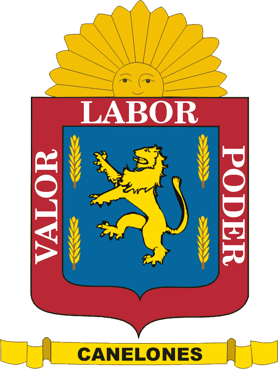 Former coat of arms of the Department of Canelones, in Uruguay. Used between 1977 and 2010.